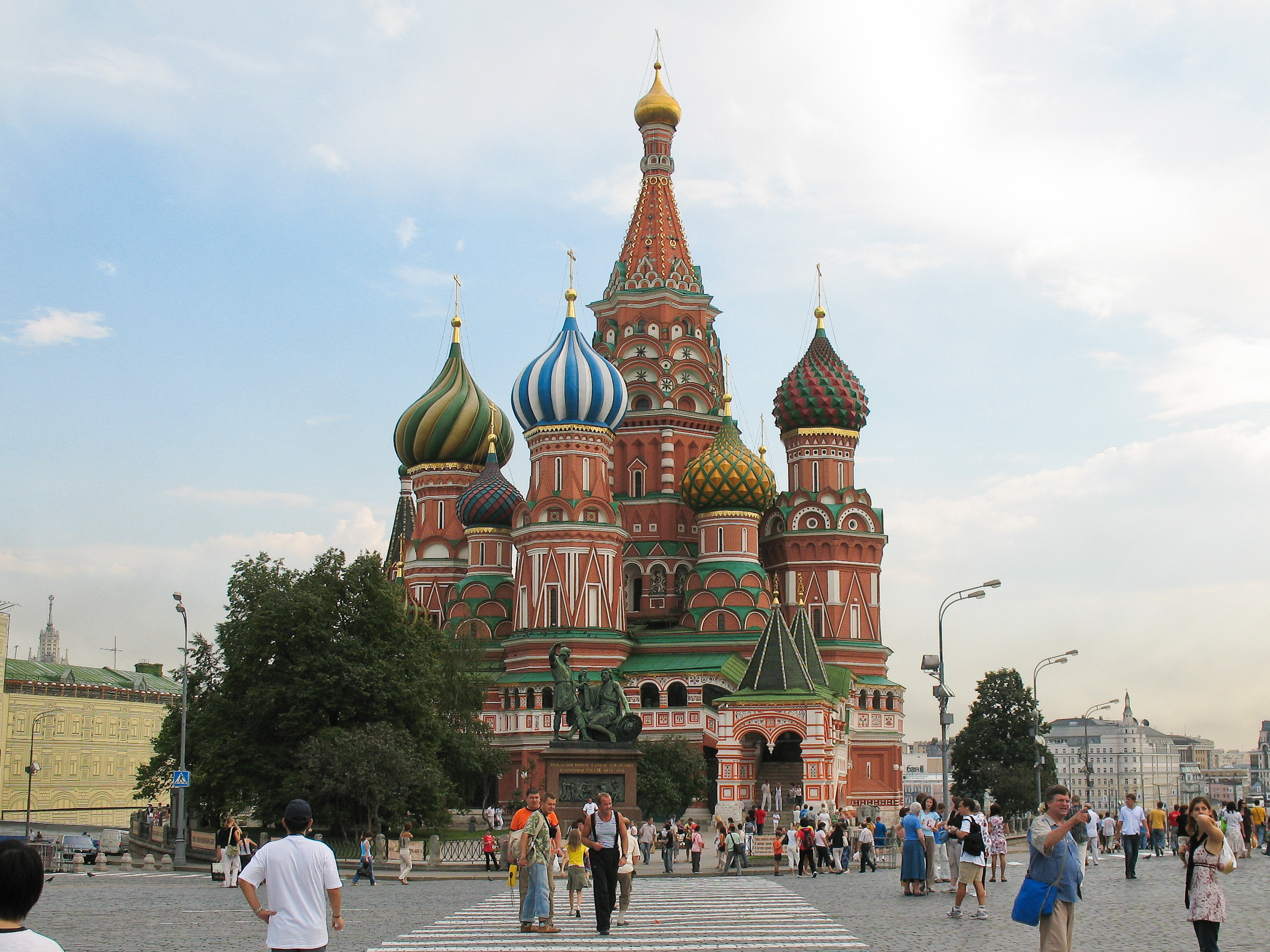 Saint Basil's Cathedral, Moscow, Russia